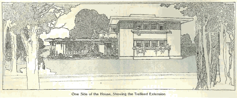 Illustration of "A Fireproof House for $5000." Originally published by Frank lloyd Wright in the Ladie's Home Journal in 1907.